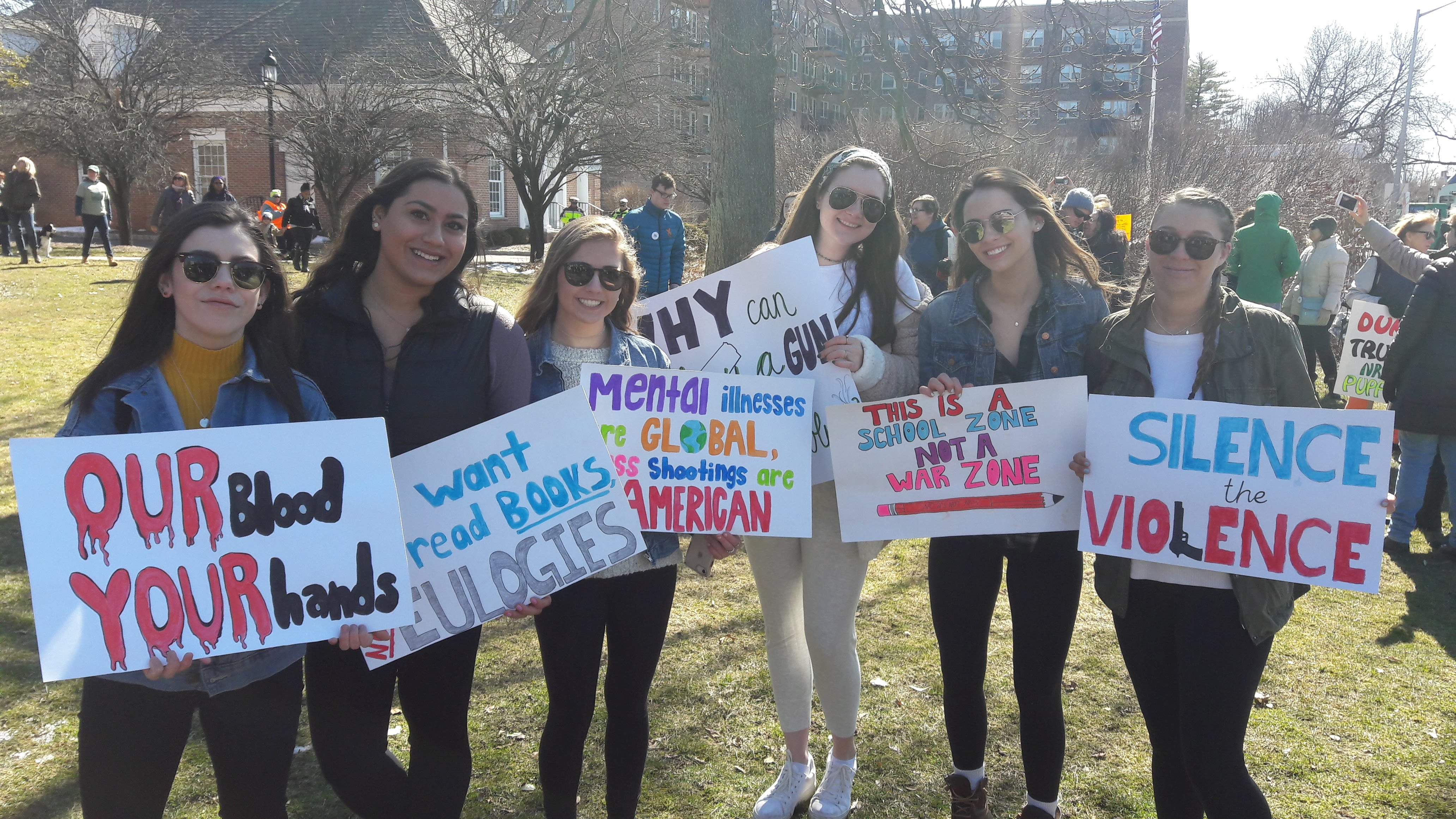 Student protesters with a variety of signs against guns and gun violence. There were approximately 14,000 people in Morristown, New Jersey, on March 24, 2018, protesting gun violence as part of the 'March for our Lives' nationwide protest. On the clear sunny day, the event began at the Morristown City Hall, then protesters marched around the town green, and returned for speeches.